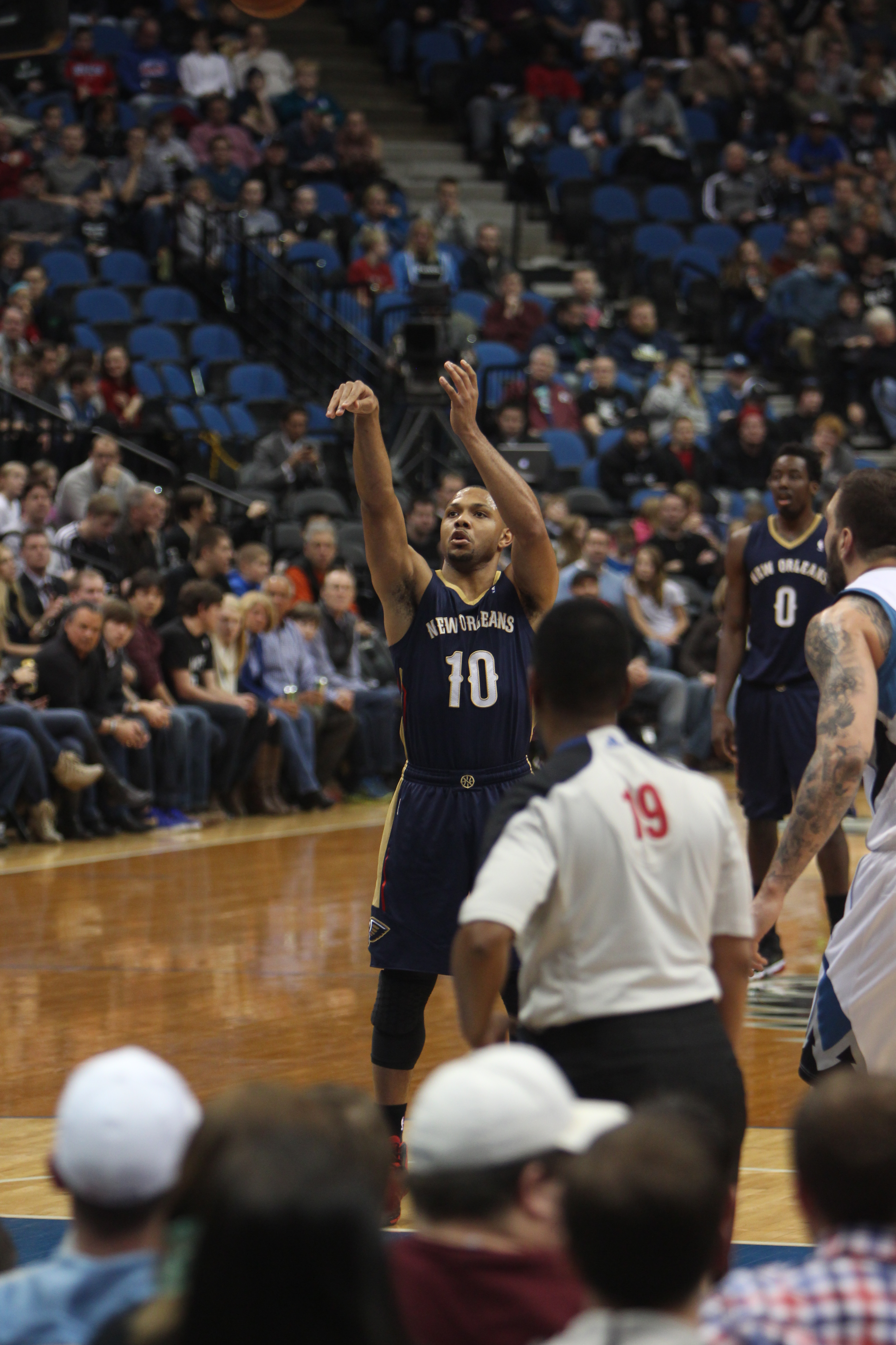 Eric Gordon at the Target Center